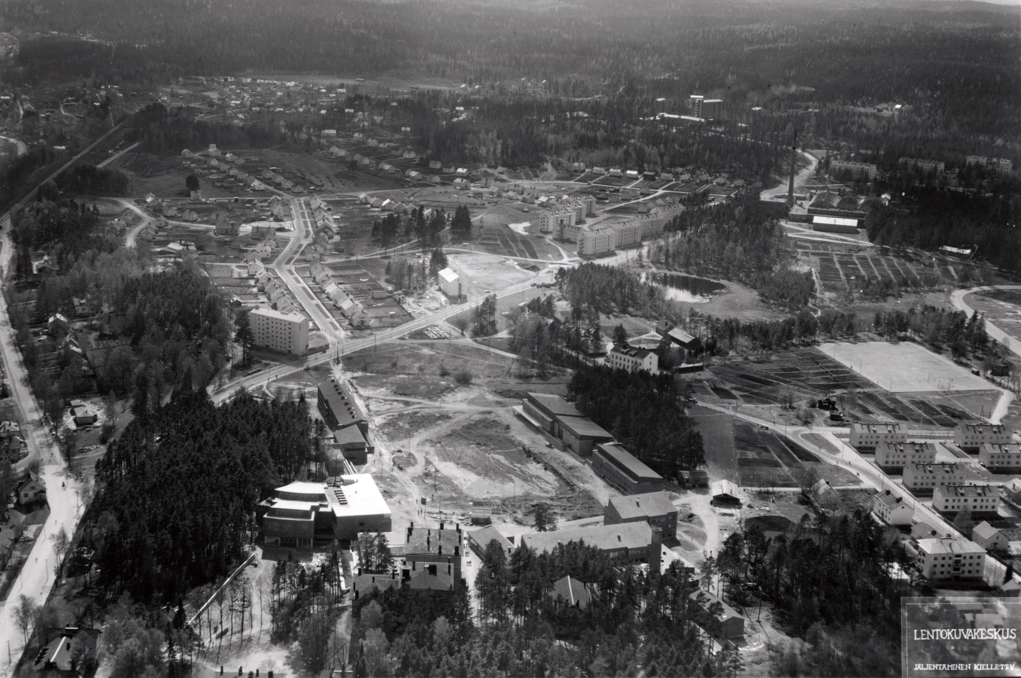 University of Jyväskylä area in Finland from air 1950s. Photo by the Finnish Air Force